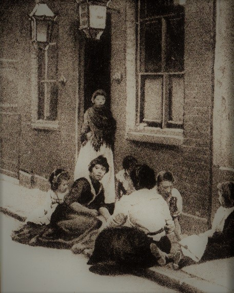 Poverty in the East End, circa 1890.